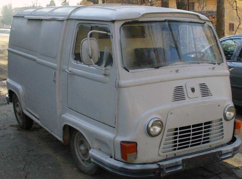 Dacia Estafette or Dacia D6